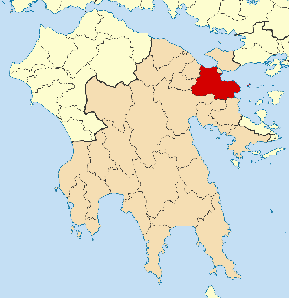 Locator map for Corinth municipality in Greek region Peloponnese (2011)